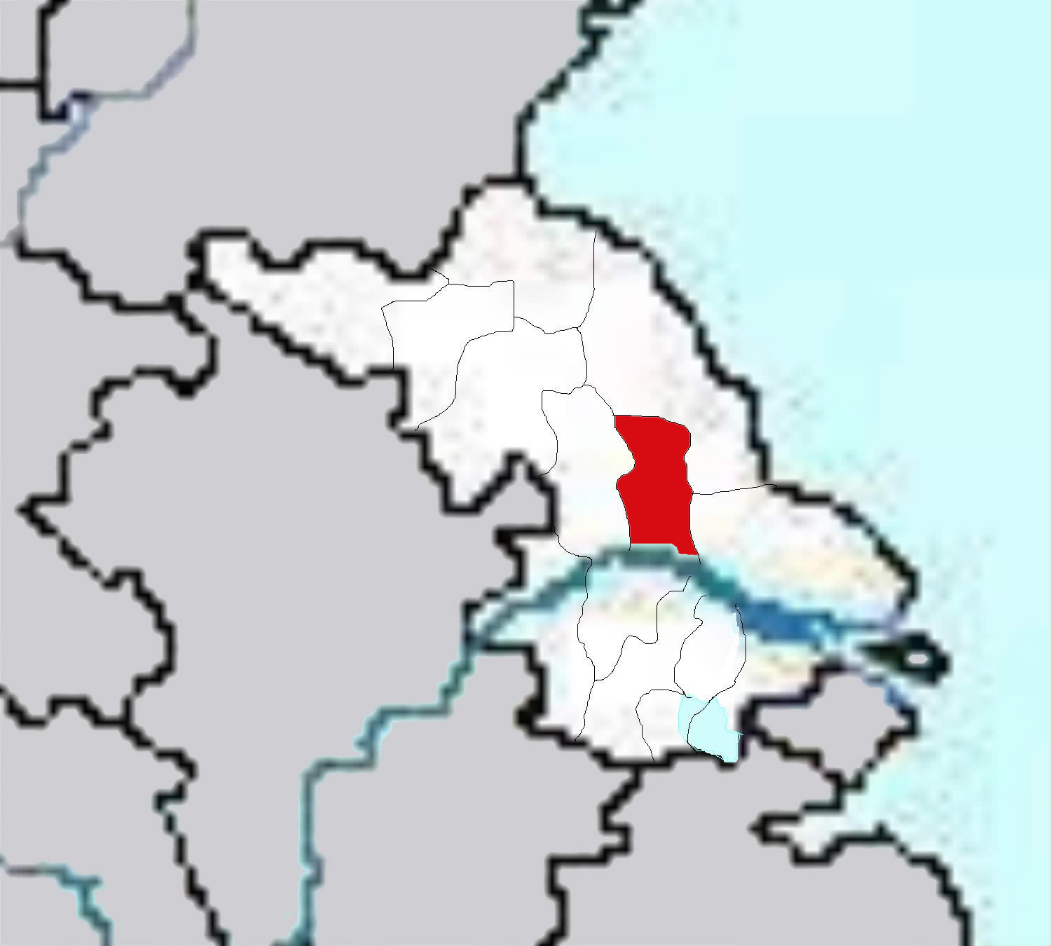 Maps of Jiangsu Province , China